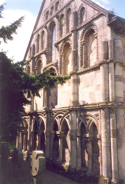 The east end of St Peter's Church, Tickencote This is a Norman chapel in the Romanesque style, possibly built c. 1160-70 (Pevsner). It was restored with partial rebuilding and alterations in 1792, so we cannot be certain that the details are original, however Pevsner states that the chancel was restored more faithfully than other parts of the church.